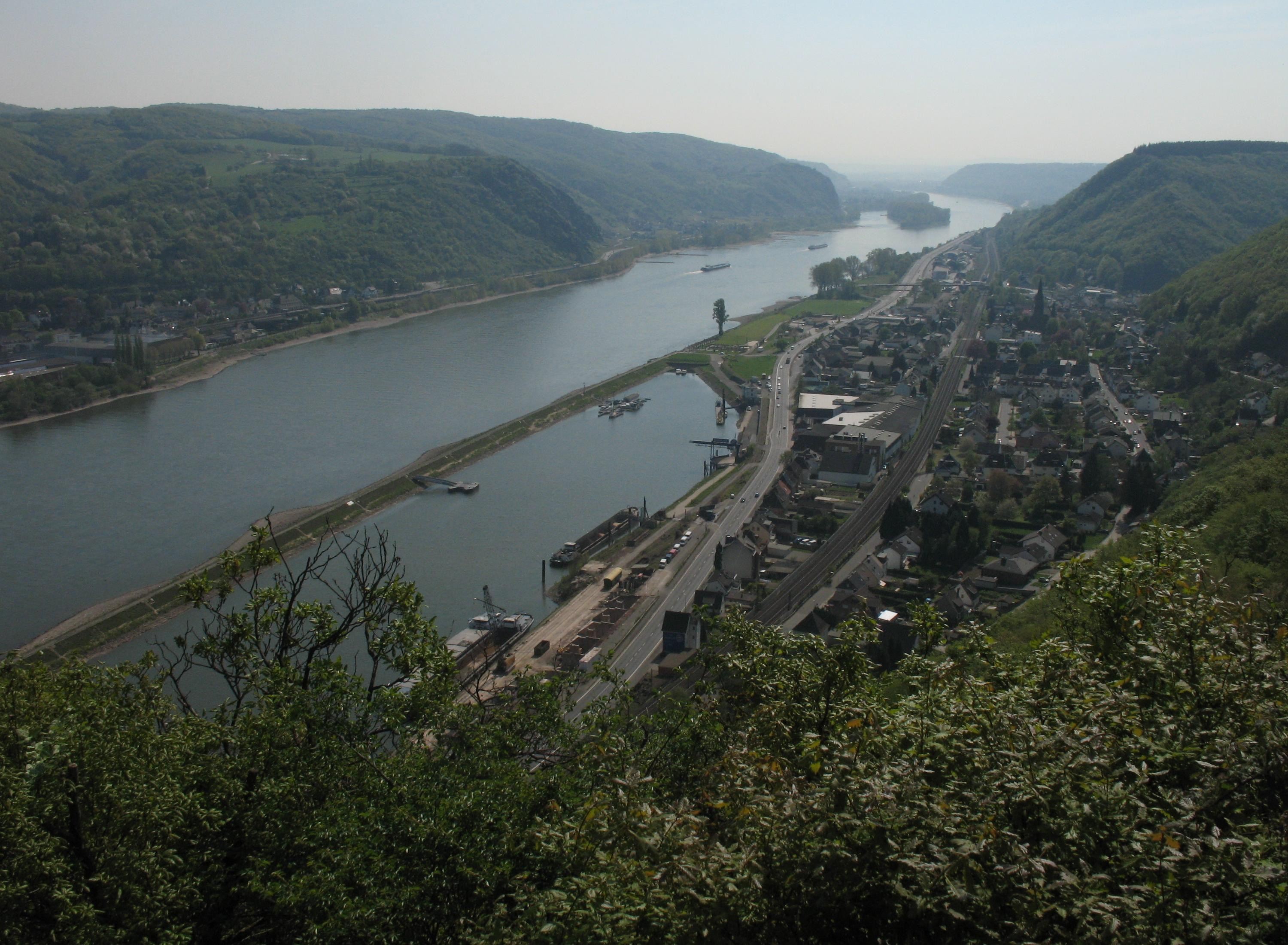 View from Reuterslei in Bad Breisig in Rhineland-Palatinate, Germany